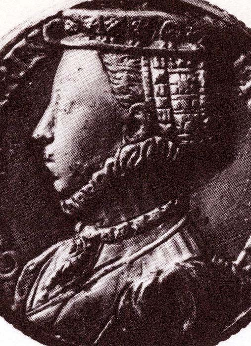 Cecilia of Baden née Princess of Sweden on one of her medallions